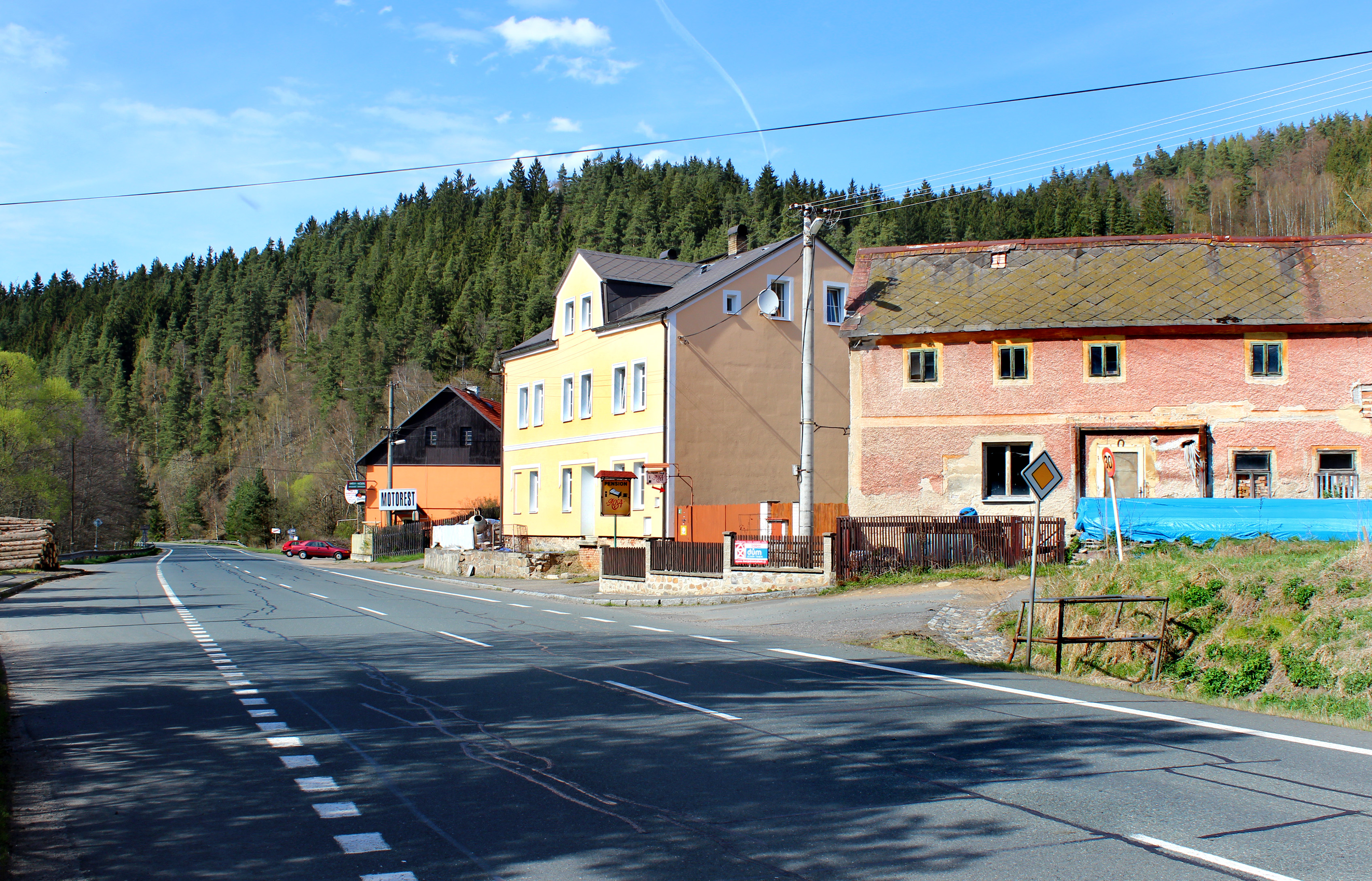 Road No. 20 in Teplička village, Czech Republic